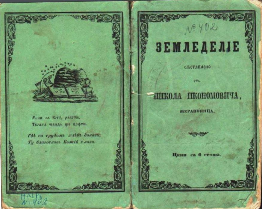 "Agriculture" by Nikola Ikonomov, published in 1853